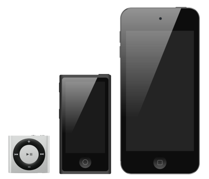 The iPod line as of 2014; from left to right: iPod Shuffle, iPod Nano, iPod Touch